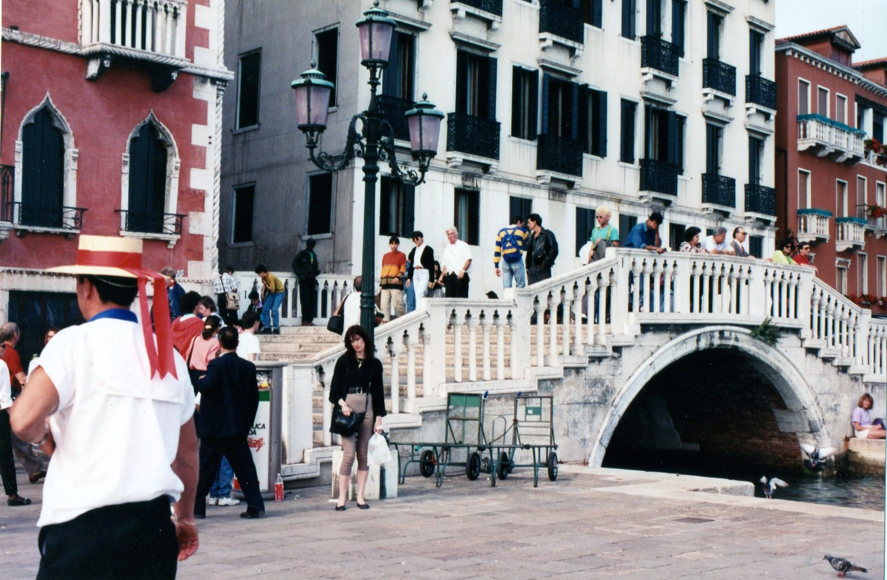 Venice facing the lagoon